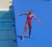 Lorena Zaffalon in the entrance of her solo free exercise in the Barcelona Swimming World Championships. Photo took by me at the Bernat Picornell Swimmingpool.